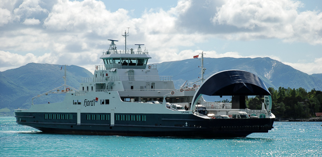 MF Lifjord between Oppedal and Lavik in 2010